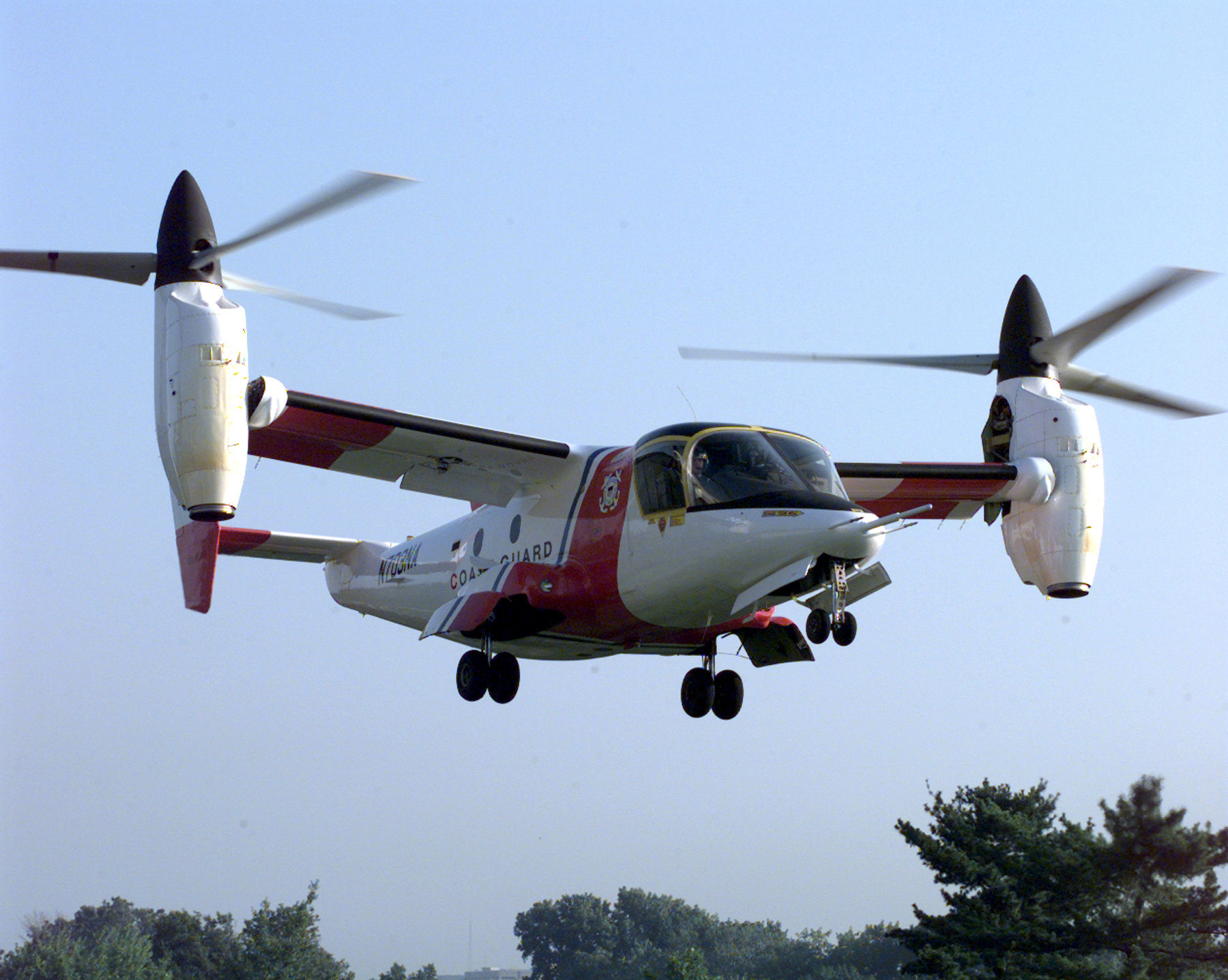 The Bell Textron XV-15 Tiltrotor aircraft prepares to land on the lawn of the Pentagon. The Tiltrotor, painted in Coast Guard colors, was part of the Pentagon Tiltrotor Technology Presentation sponsored by the U.S. Marine Corps in Washington, DC. Bell Textron is partnered with Lockhead-Martin as one of three teams hired to design surface, air and information technology systems for the 21st century Coast Guard.